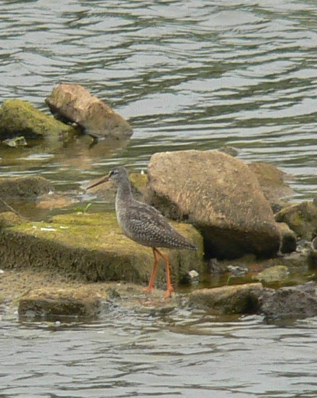 Spotted Redshank